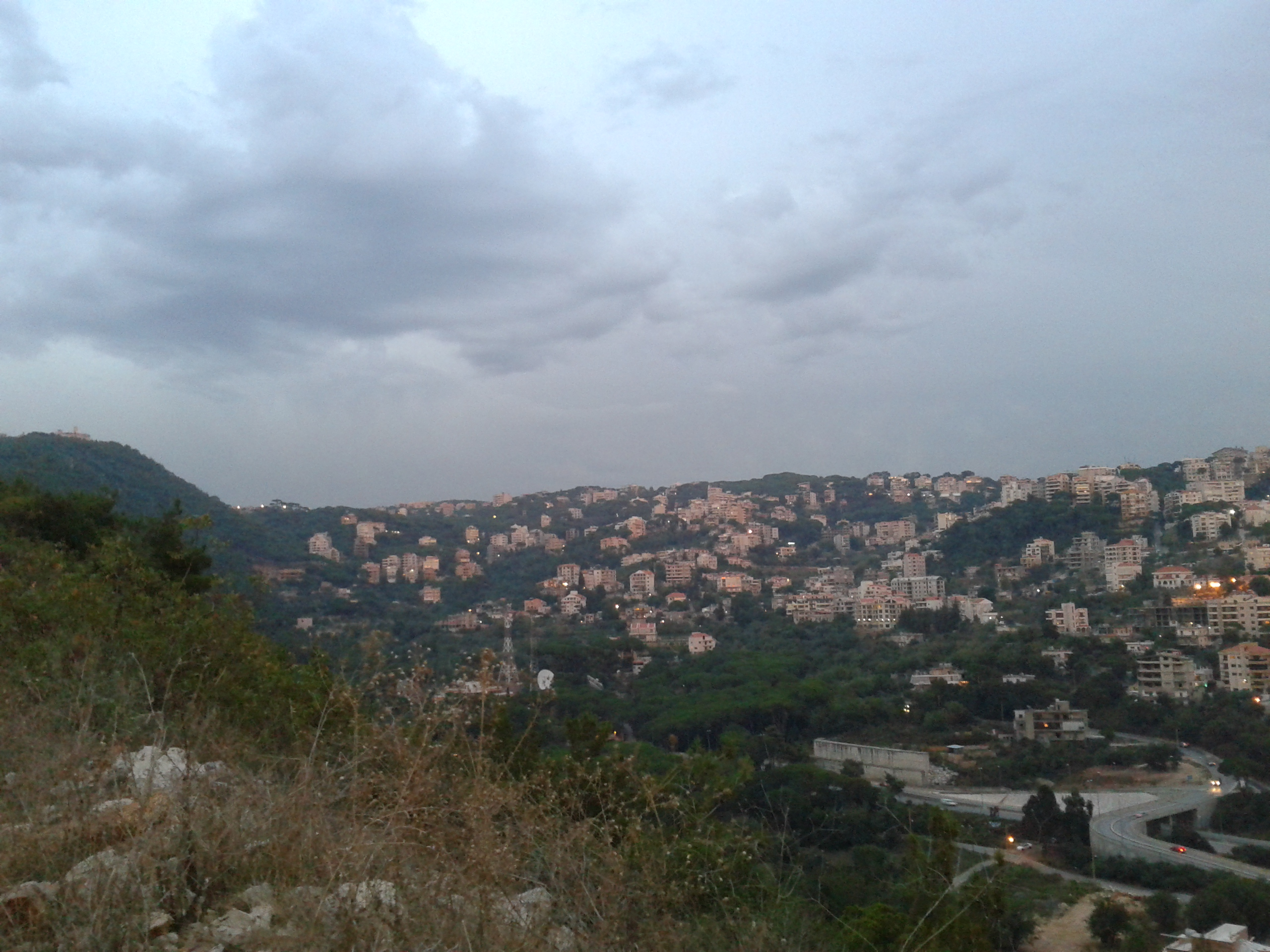 view for the village